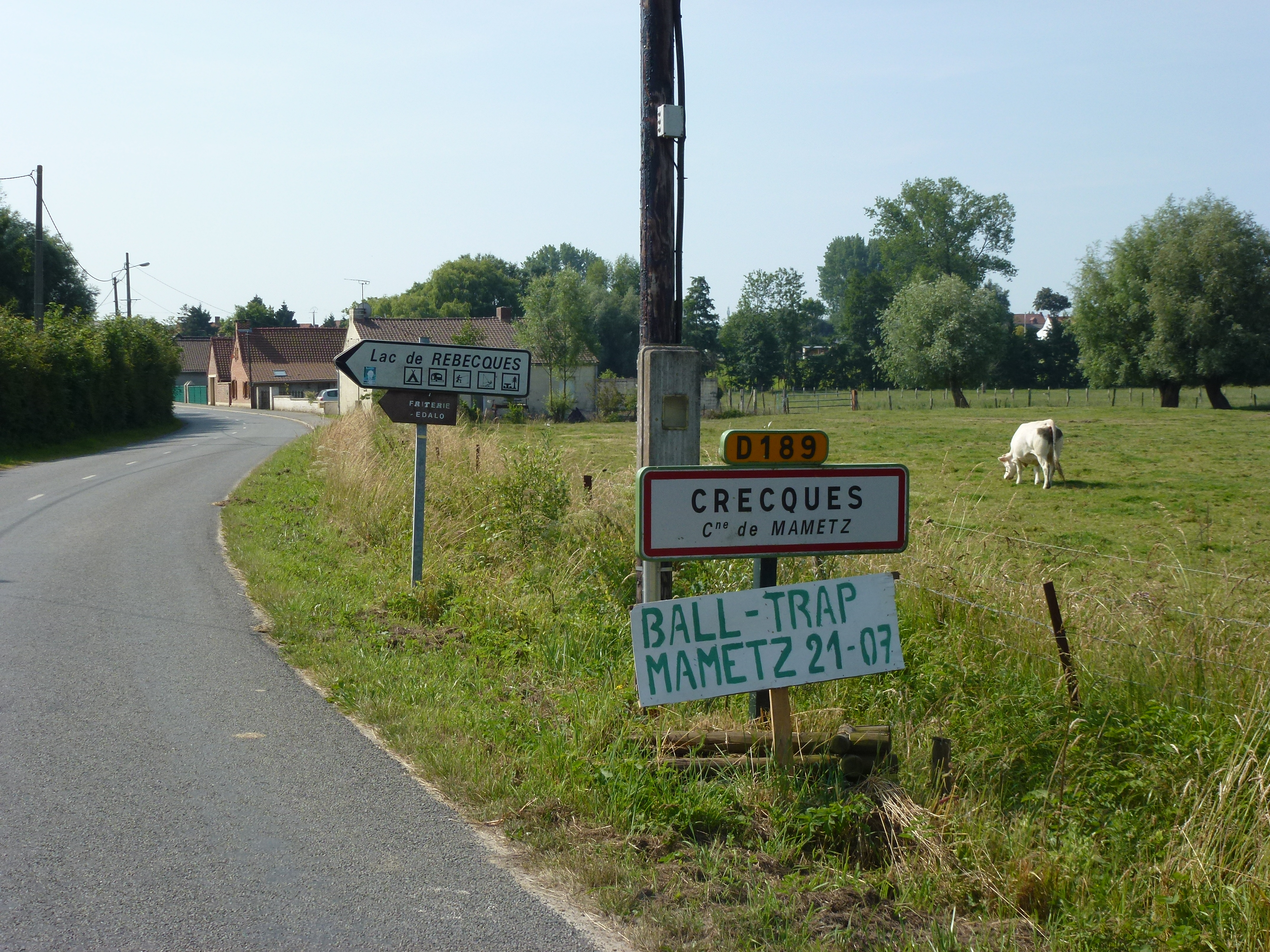 Mametz (Pas-de-Calais, Fr), city limit sign Crecques